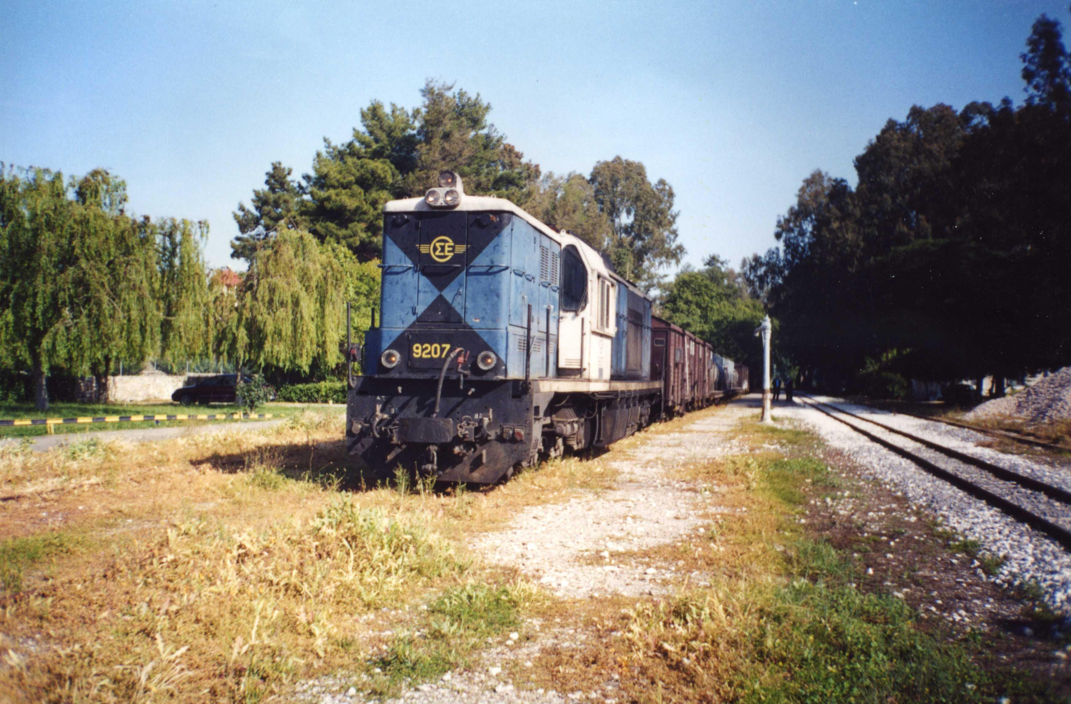 9207 on special train